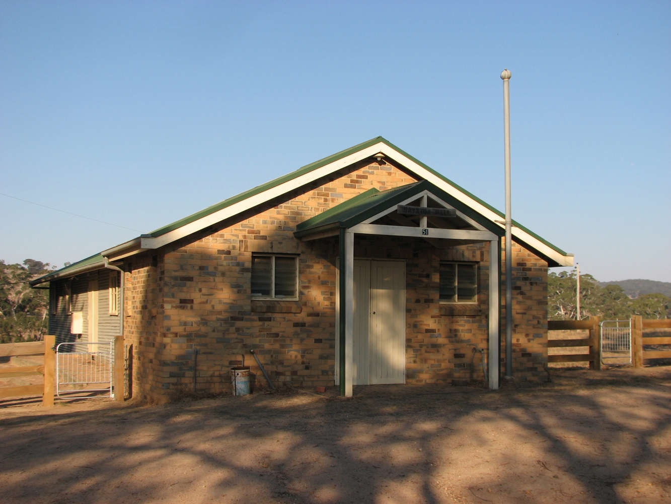 Barfold Hall, Barfold, Victoria, Australia